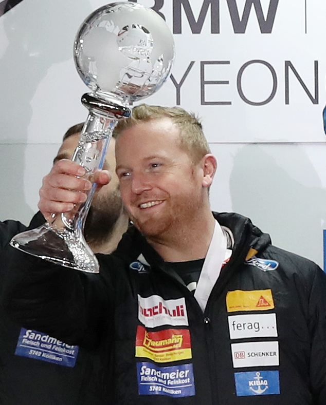 Rico Peter at the BMW IBSF World Cup Bob&Skeleton 2016/17 PyeongChang4-Man Bobsleigh, March 19, 2017, Alpensia Sliding Center, Pyeongchang-gun, Gangwon-do